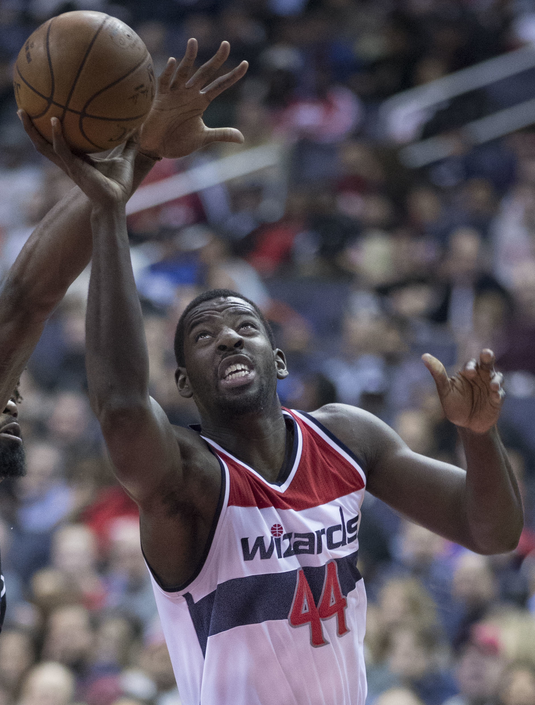 Andrew Nicholson of the Washington Wizards attempts a shot during a 2016 game against the Los Angeles Clippers at the Verizon Center in Washington, D.C.